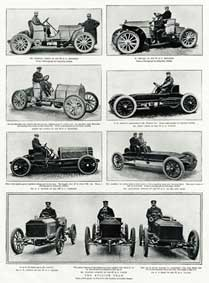 The competitors for the British Gordon Bennett Cup race, 1903, held in Ireland, 3 of the cars are Mercedes, 3 Napiers, 2 Wintons and 1 Peerless